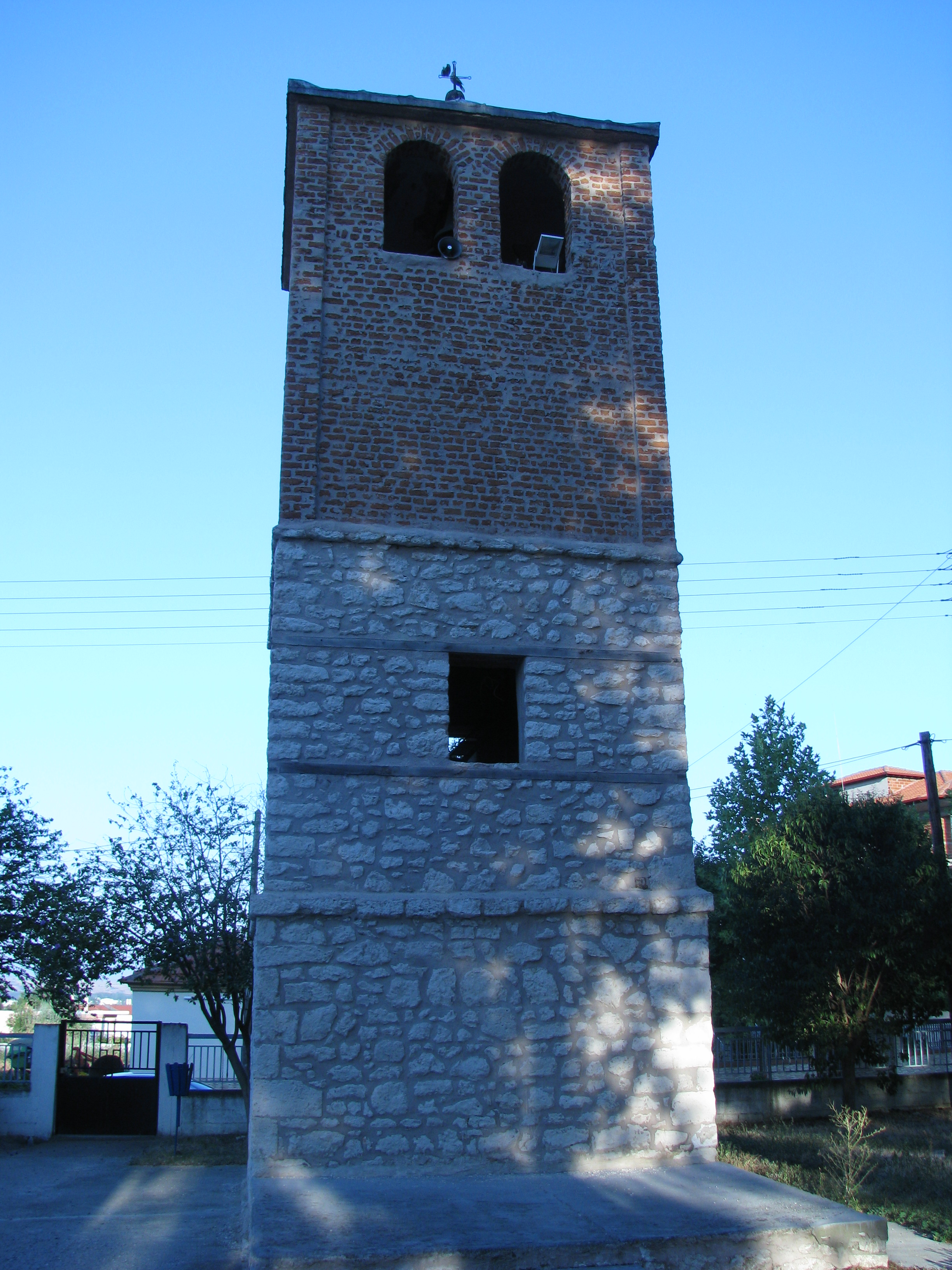 Tower of St.Atanas church in Kufalia/Kufalovo, Aegean Macedonia, Greece